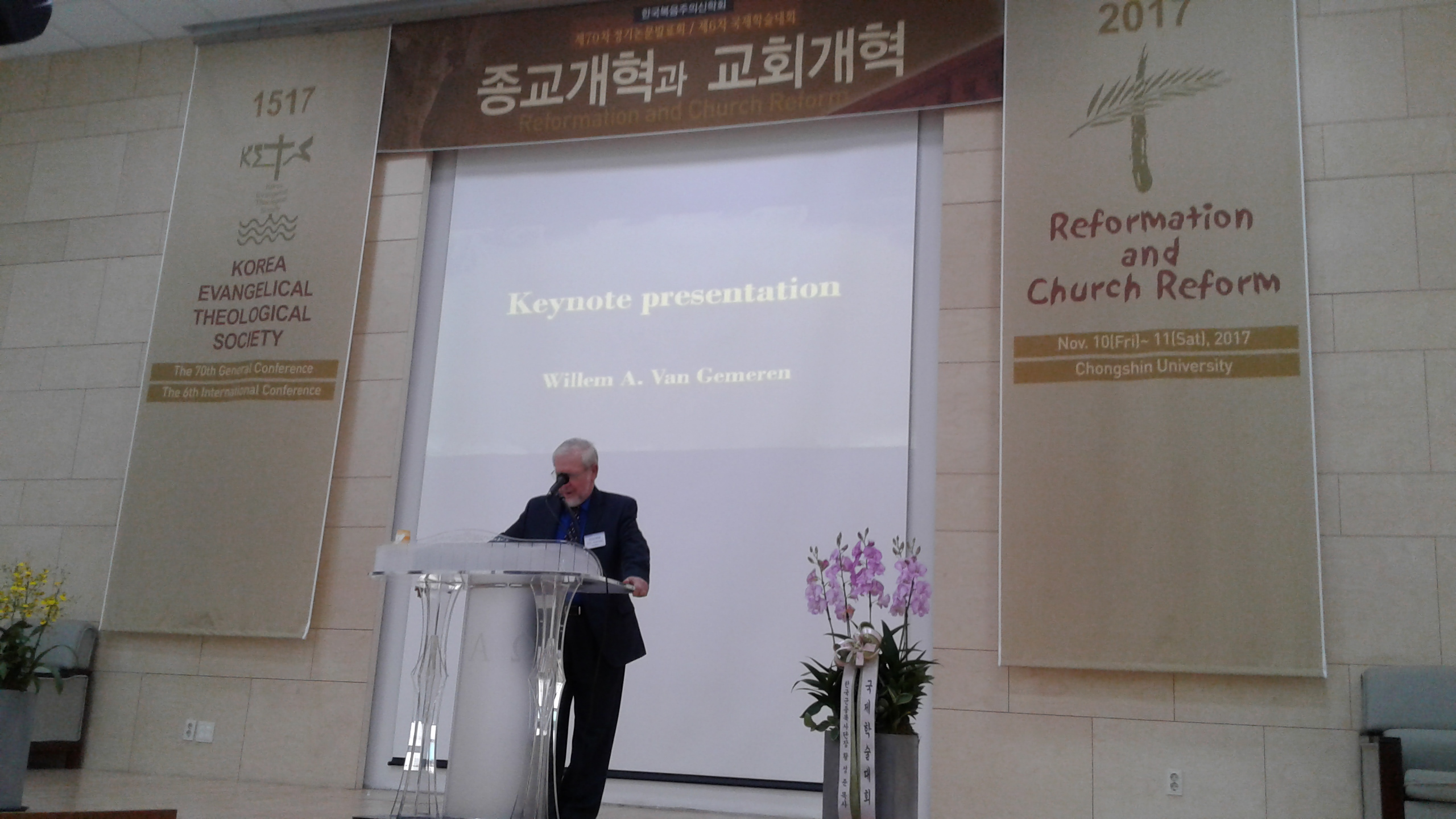 Prof. W vangemeren